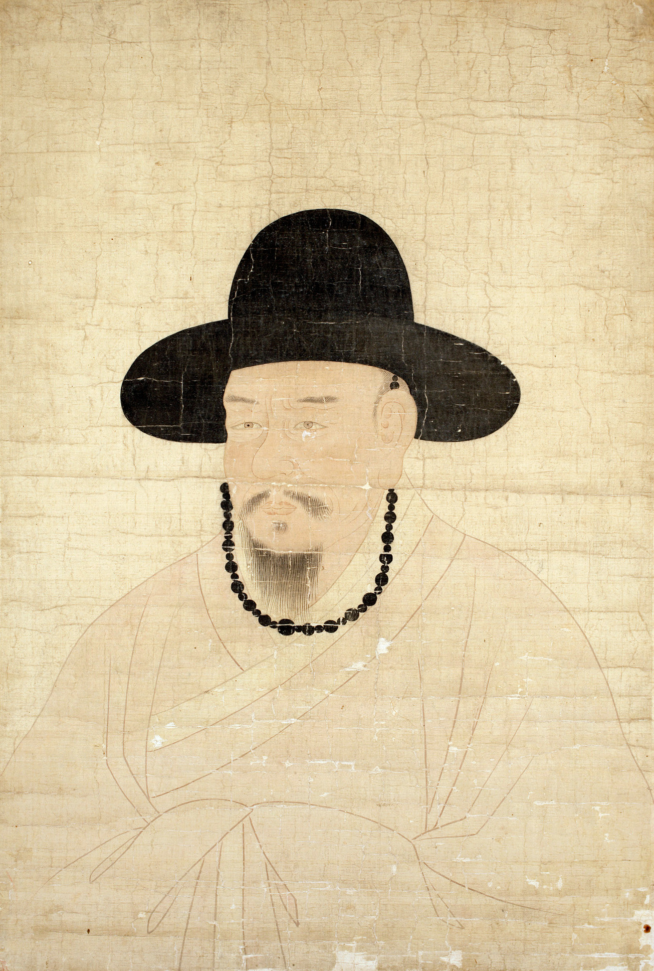 Portraits for Kim Si-seup